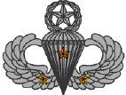 Army Master Parachute Badge with Three Combat Jumps